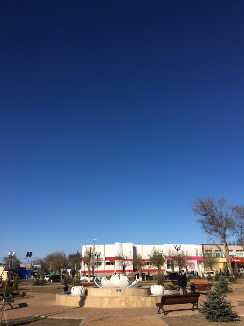 Luzhaika lotosov Gorodovikovsk